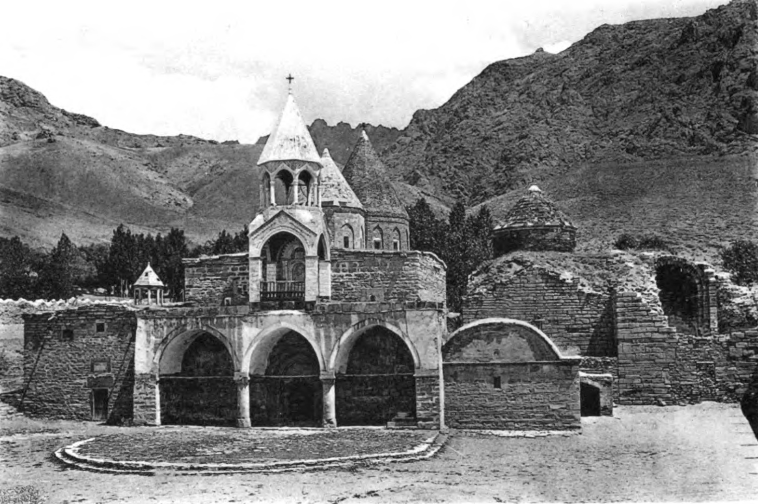 Varagavank